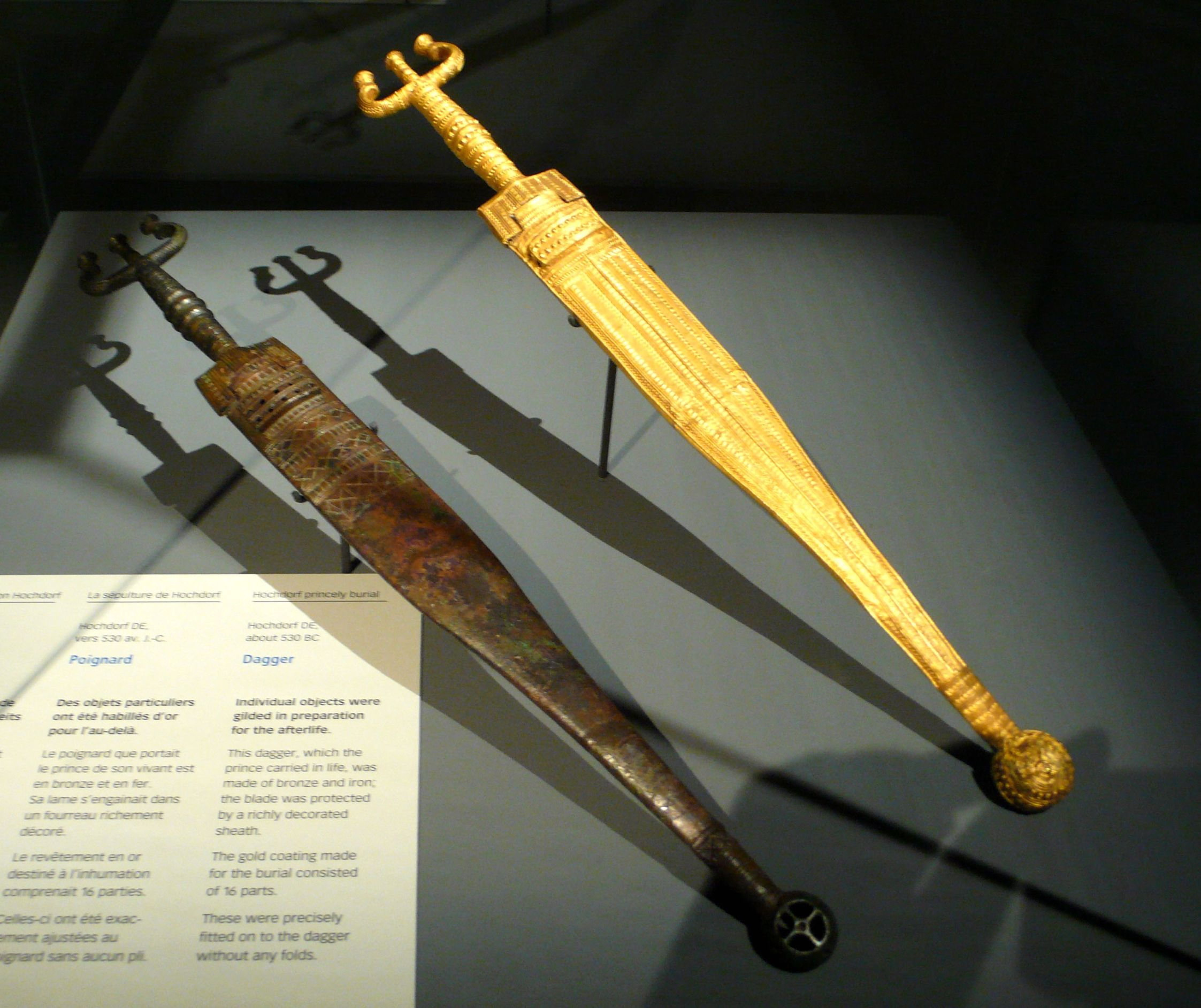 Hochdorf Chieftain's Grave, Germany. About 530 BC Gilded in preparation for the afterlife, this 42cm long, bronze and iron dagger was carried by the prince in life. The blade was protected by a richly decorated sheath. The gold coating made for the burial consisted of 16 parts, all precisely fitted onto the dagger without any fold. The Hochdorf Chieftain's Grave is a richly-furnished burial chamber. Regarded as the "Tutankamon of the Celts", it was discovered in 1977 near Hochdorf an der Enz in Baden-Württemberg, Germany). A man of 40 years old, 6 ft 2 in (187 cm) tall was laid out on a bronze couch. He had been buried with a gold-plated torc on his neck, a bracelet on his right arm, and most notably, thin embossed gold plaques were on his now-disintigrated shoes. At the foot of the couch was a large cauldron decorated with three lions around the brim. The east side of the tomb contained a four-wheeled wagon holding a set of bronze dishes - enough to serve nine people. Kunst der Kelten, Historisches Museum Bern. Art of the Celts, Historic Museum of Bern.